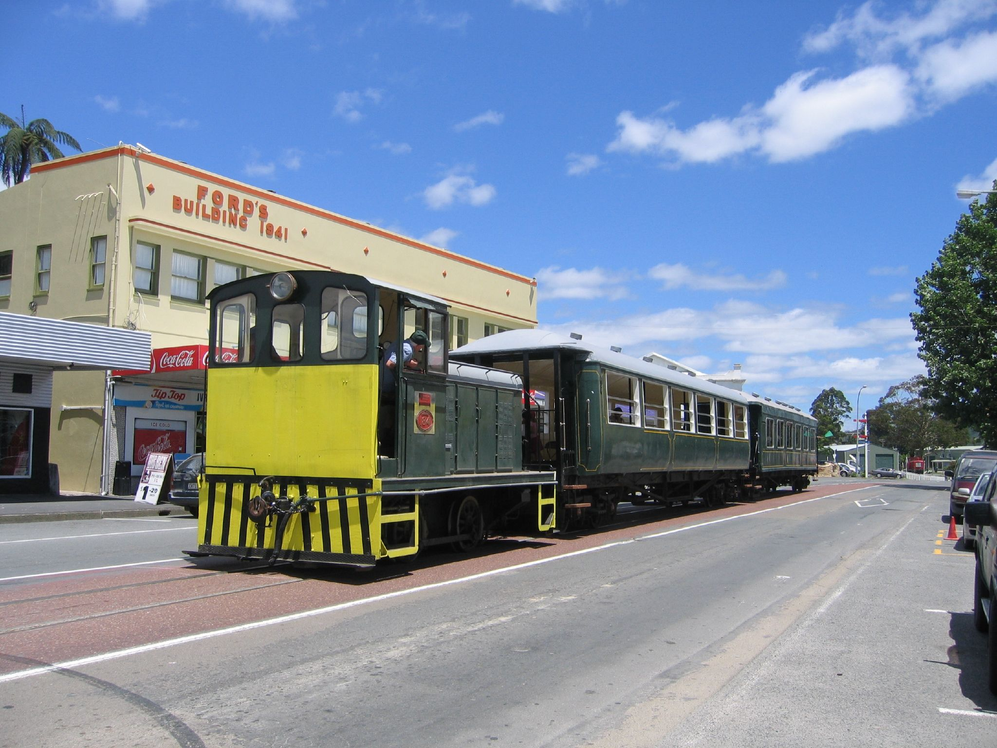 The Bay of Islands Vintage railway runs through the main street of Kawakawa Northland